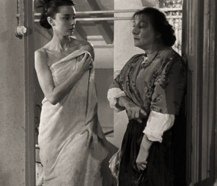 Audrey Hepburn & Paola Borboni in Roman Holiday - trailer (cropped screenshot)